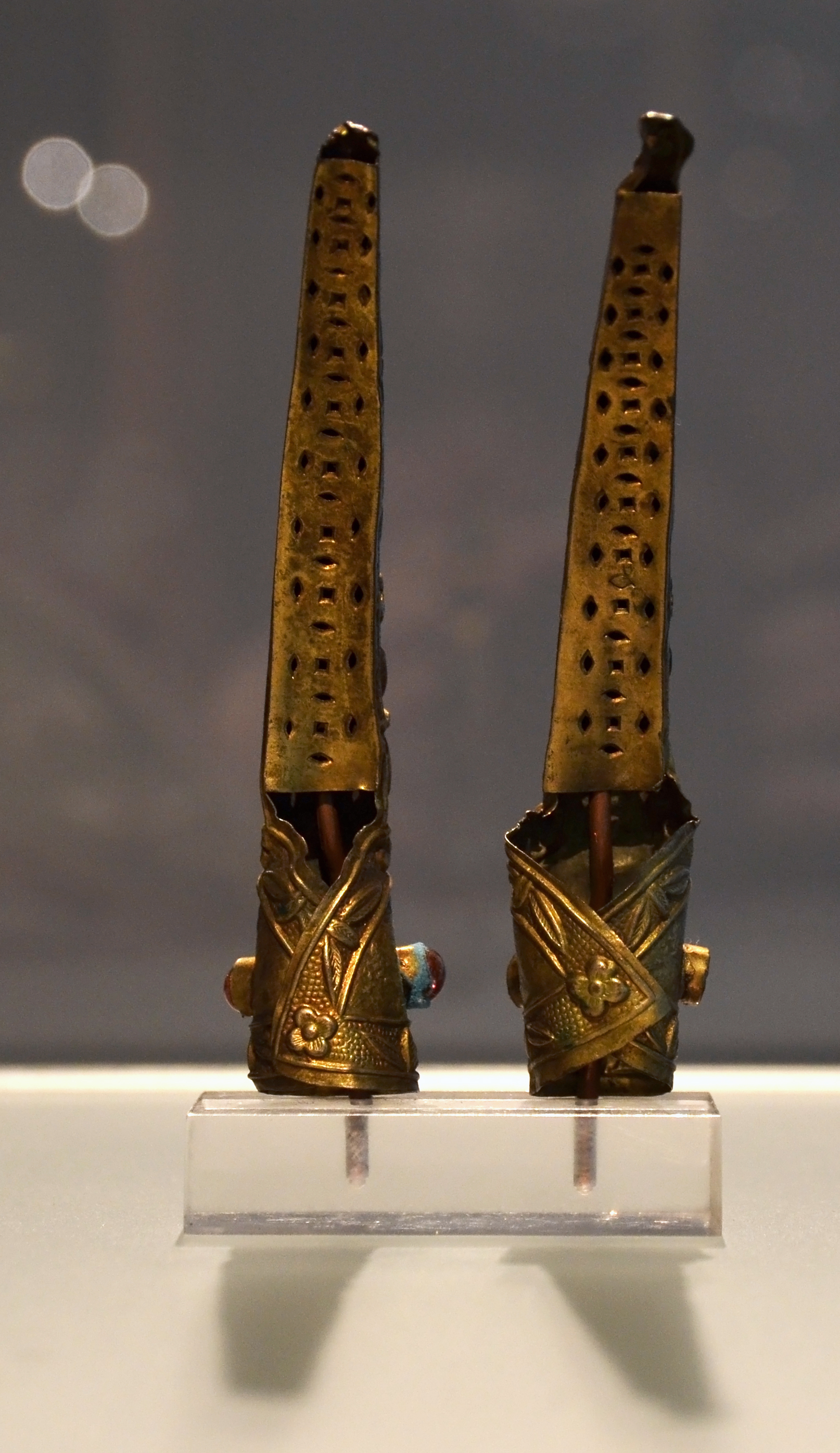 Pair of finger nail protectors, back view ; brass sheet hammered, inlaid semi precious stones. China, Qing Dynasty , 1900-1910. Museum für Ostasiatische Kunst in Cologne ( gift by Helga Fisher ).